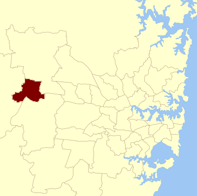 Location of the New South Wales Legislative Assembly electoral district within Sydney in New South Wales. Reference: [1]